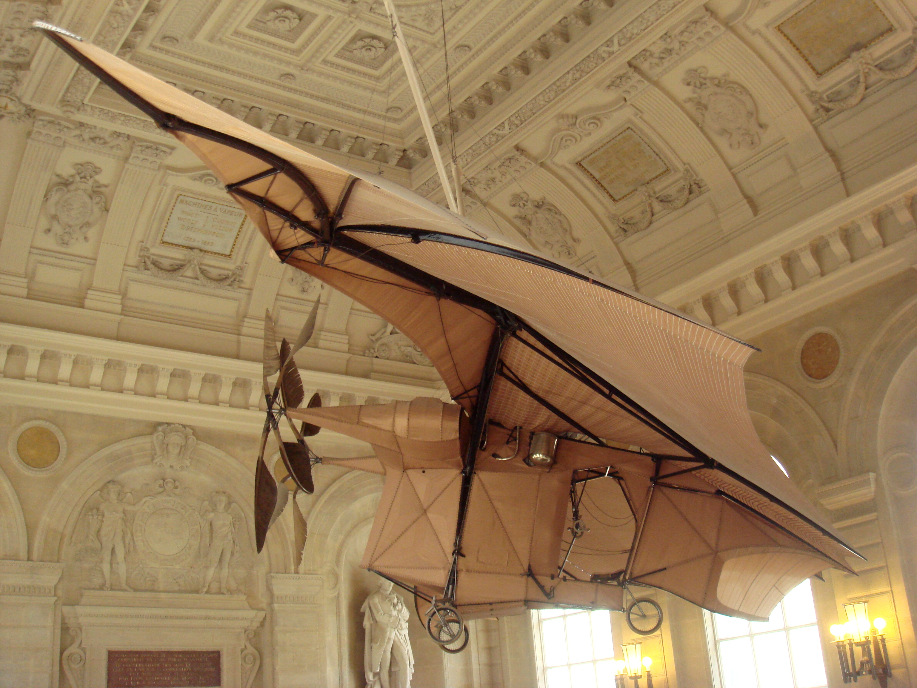 Avion III in the environment of Art et Metiers